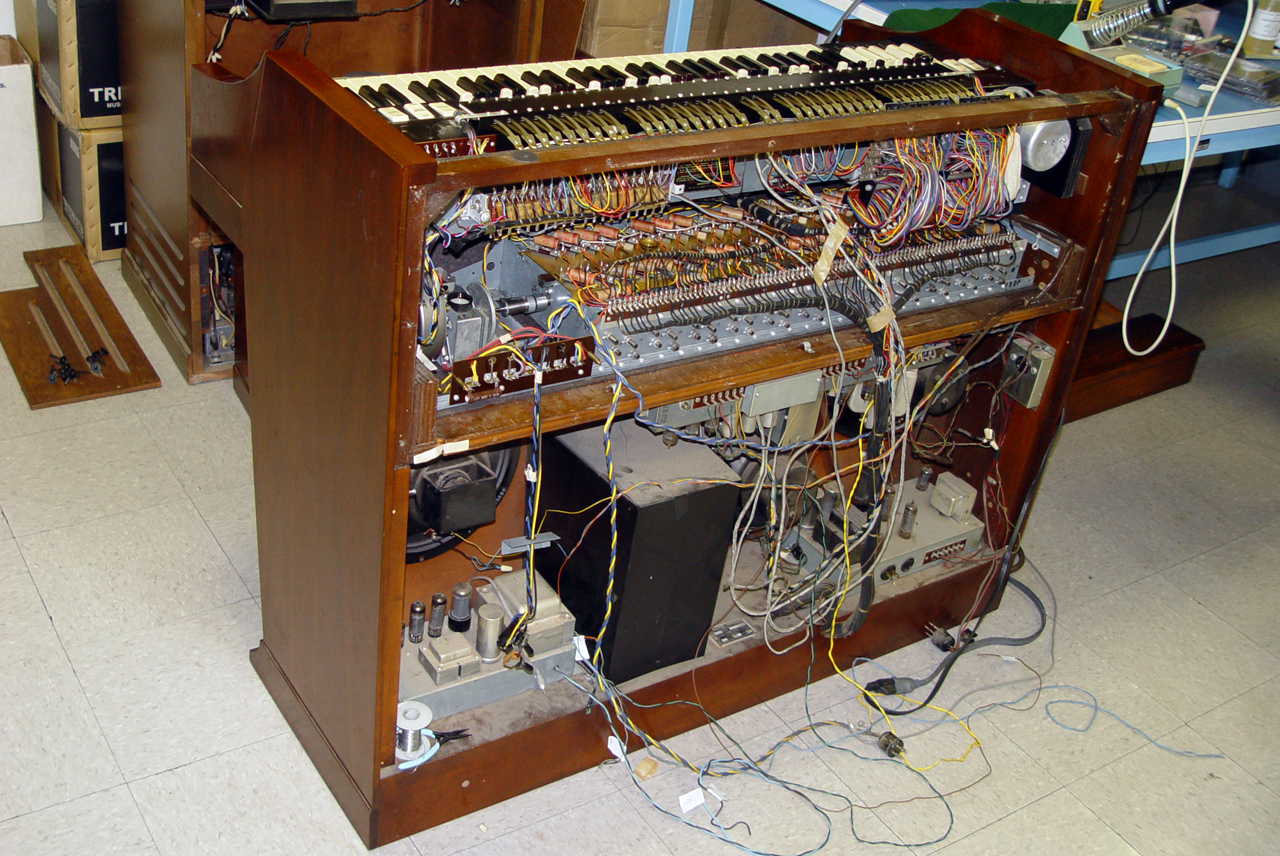 Hammond A100, point to point spaghetti